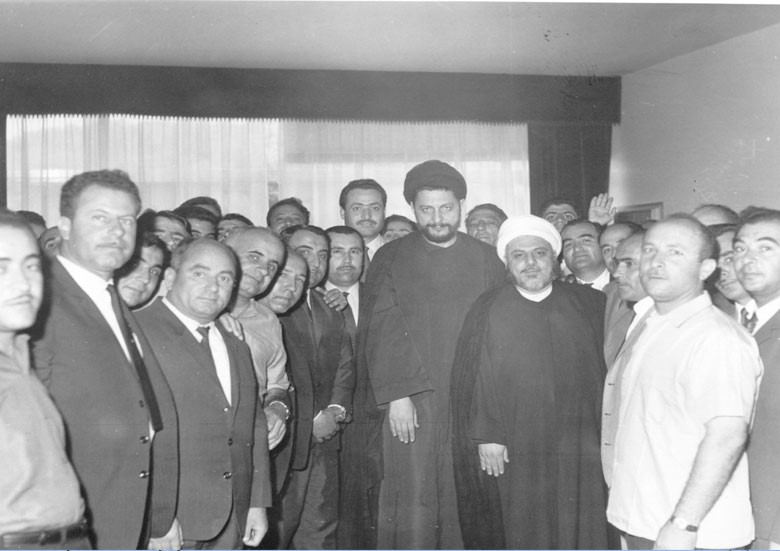 Choosing Imam Musa Sadr to preside over the Supreme Council of the Shiites of Lebanon